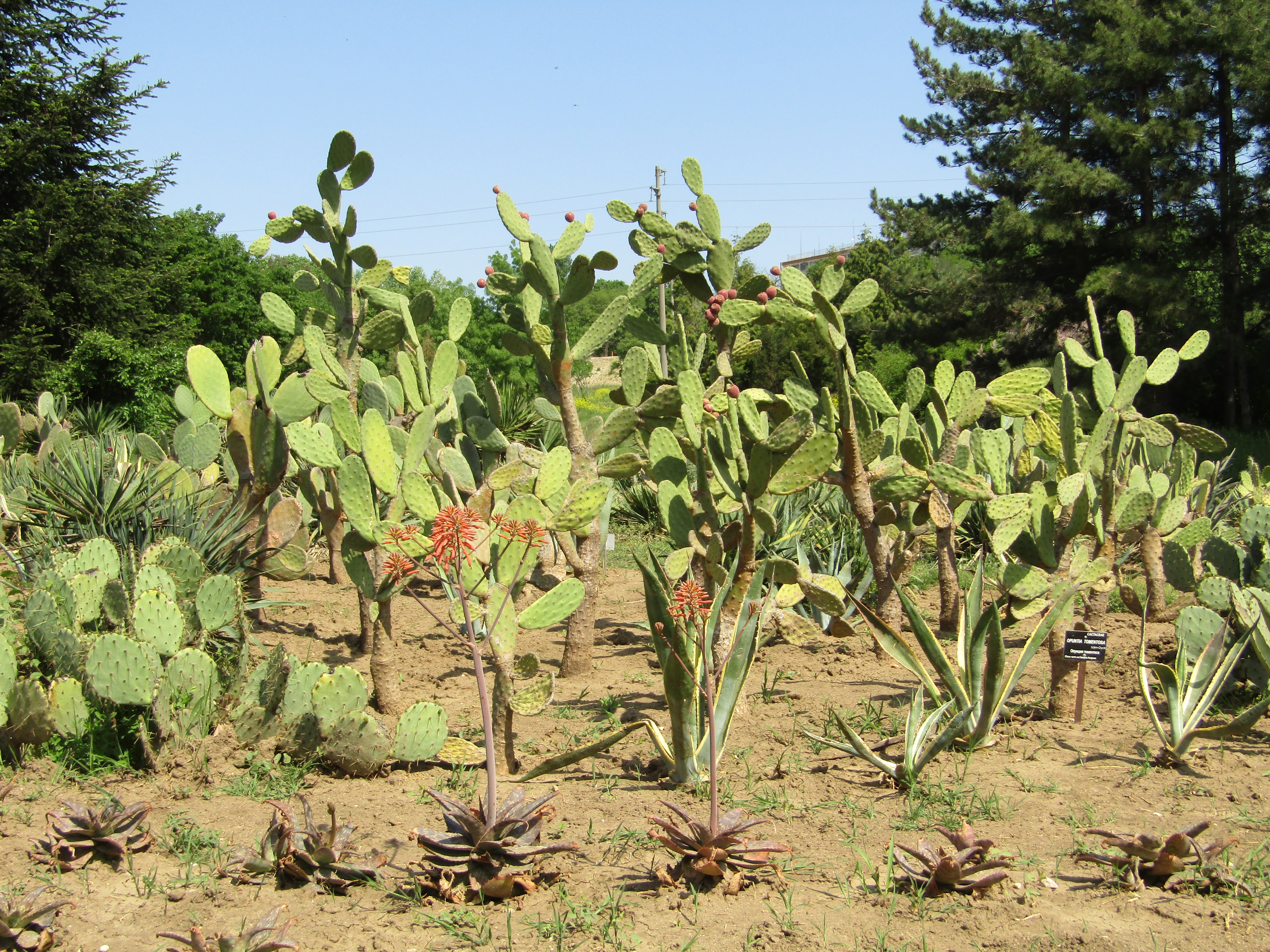 Opuntia tomentosa in Sofia University Botanical garden, Varna, Bulgaria.